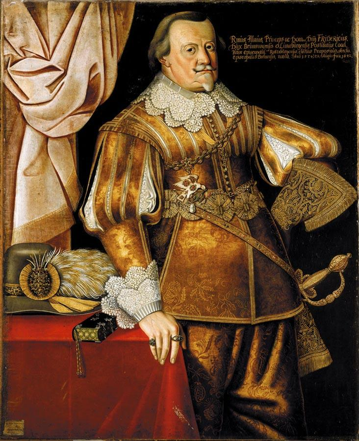 Portrait of Frederick IV, Duke of Brunswick-Lüneburg (1574-1648)